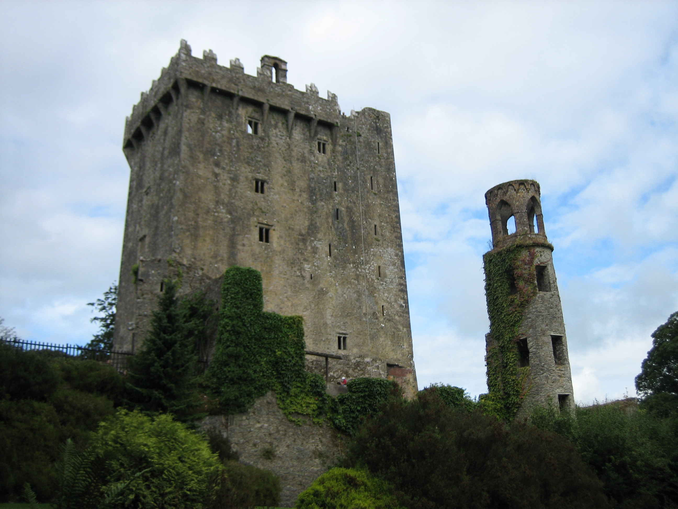 Blarney Castle is a medieval stronghold in Blarney, near Cork, Ireland.